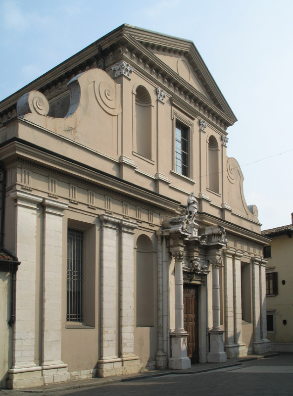 Cathedral, devoted to Saint Mary Magdalene (Desenzano del Garda, Brescia, Italy).